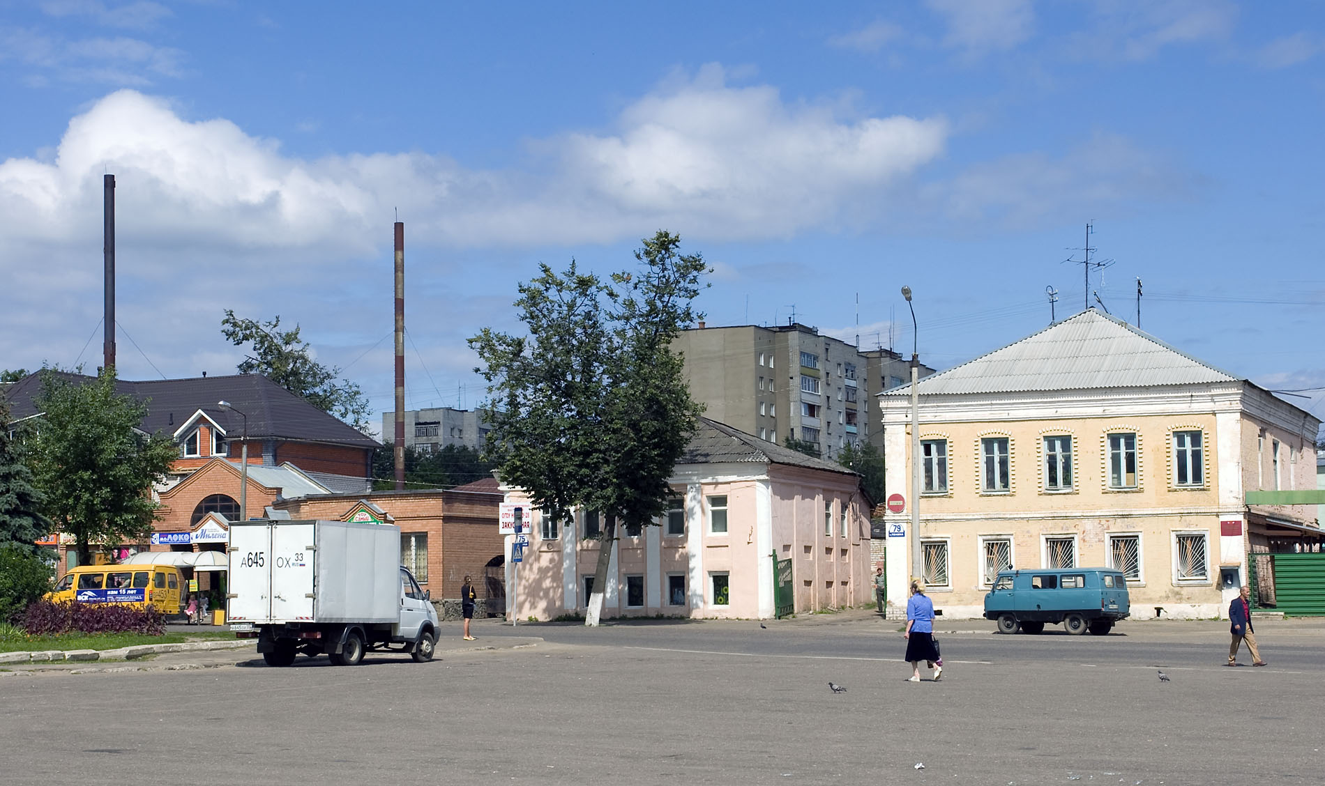 Lenin Street in Alexandrov, Russia.